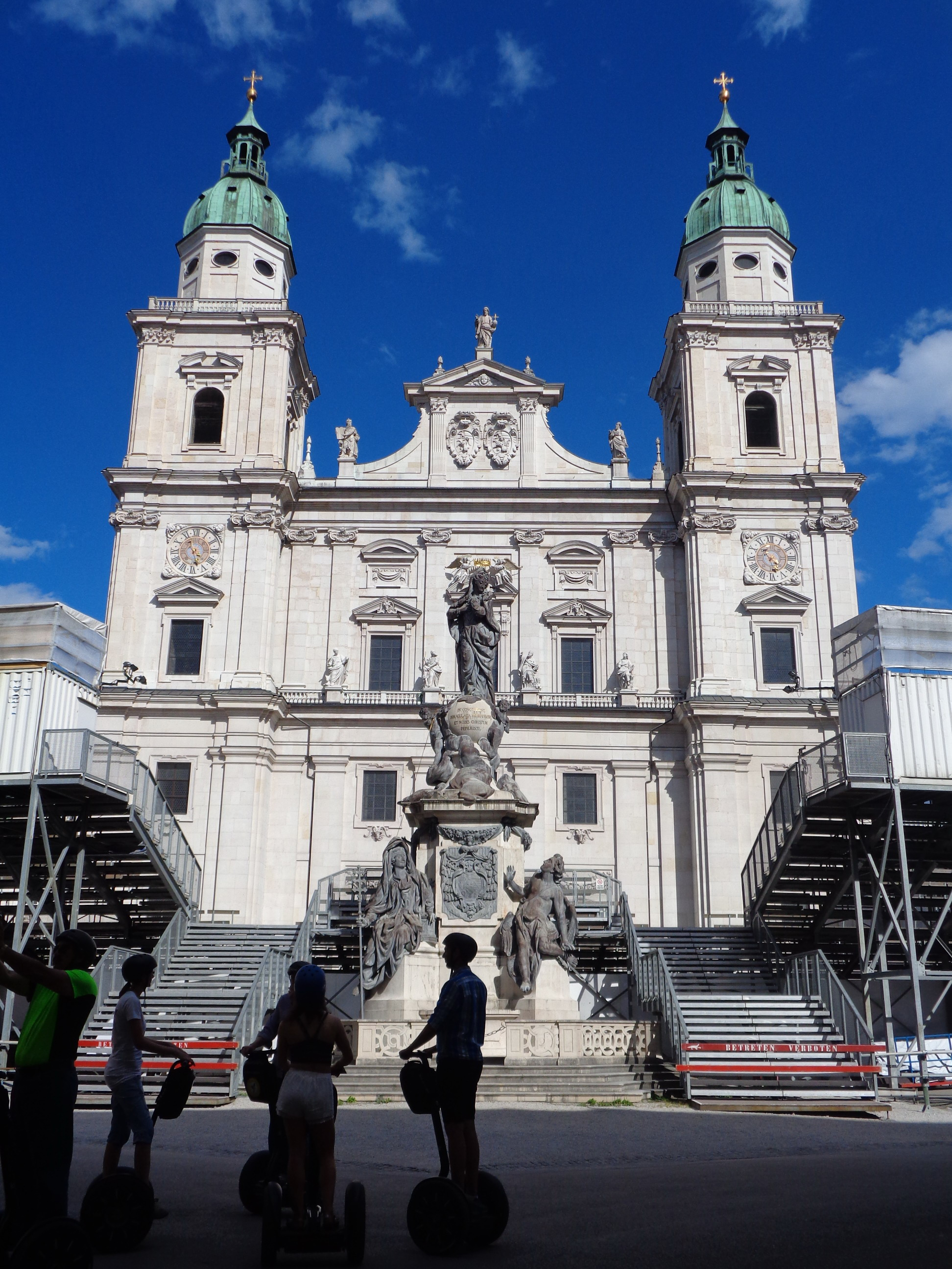 Salzburg Cathedral, Austria - west view